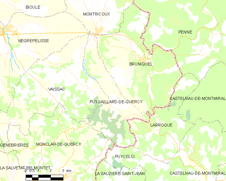 Map of French municipality Puygaillard-de-Quercy